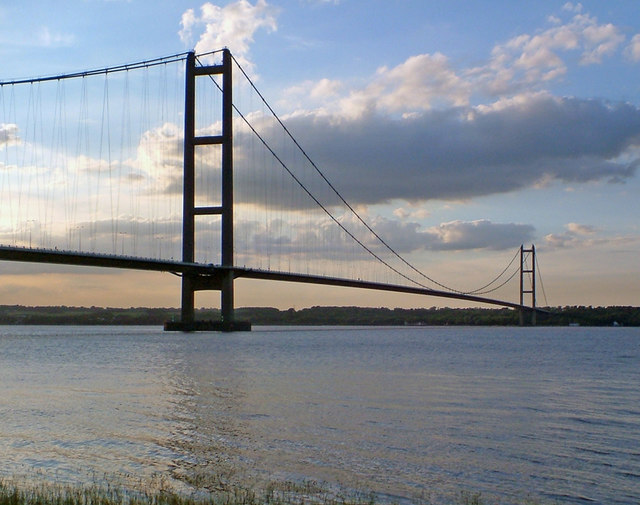 The Humber Bridge - High Tide from the south bank near Barton-upon-Humber, Lincolnshire, England.For a picture taken from the same position at low tide see TA0224 : The Humber Bridge - Low Tide.